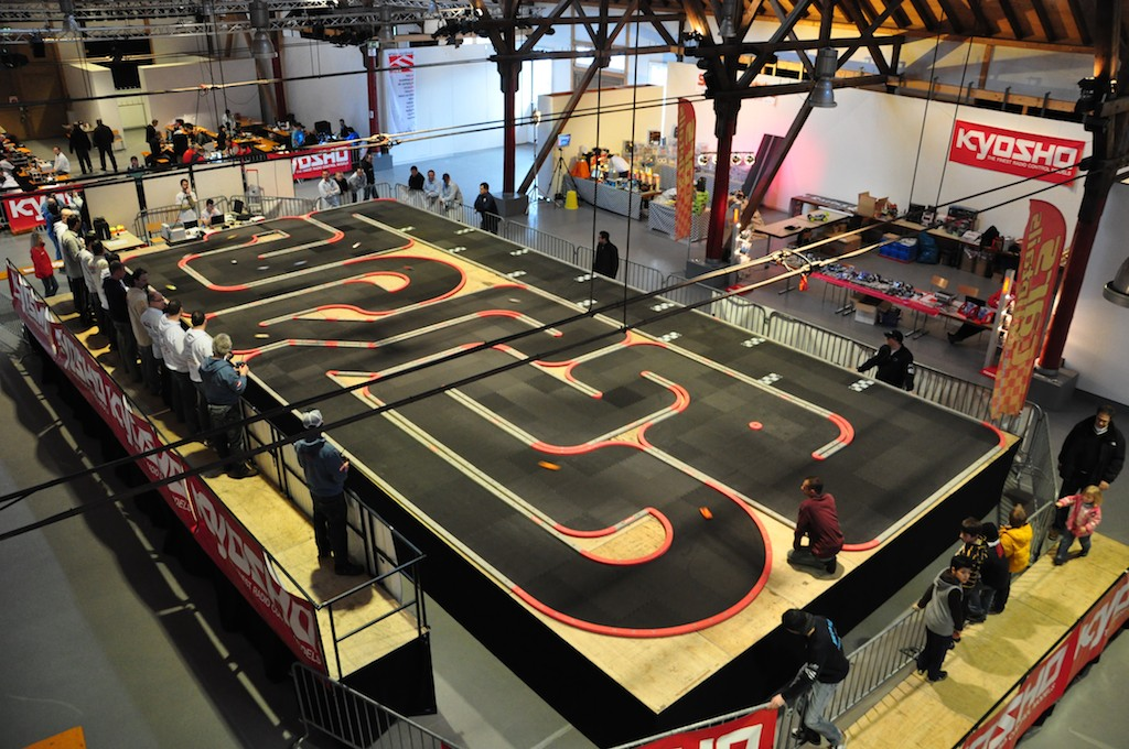 Mini-Z Masters Fellbach 2010 - RCP Track